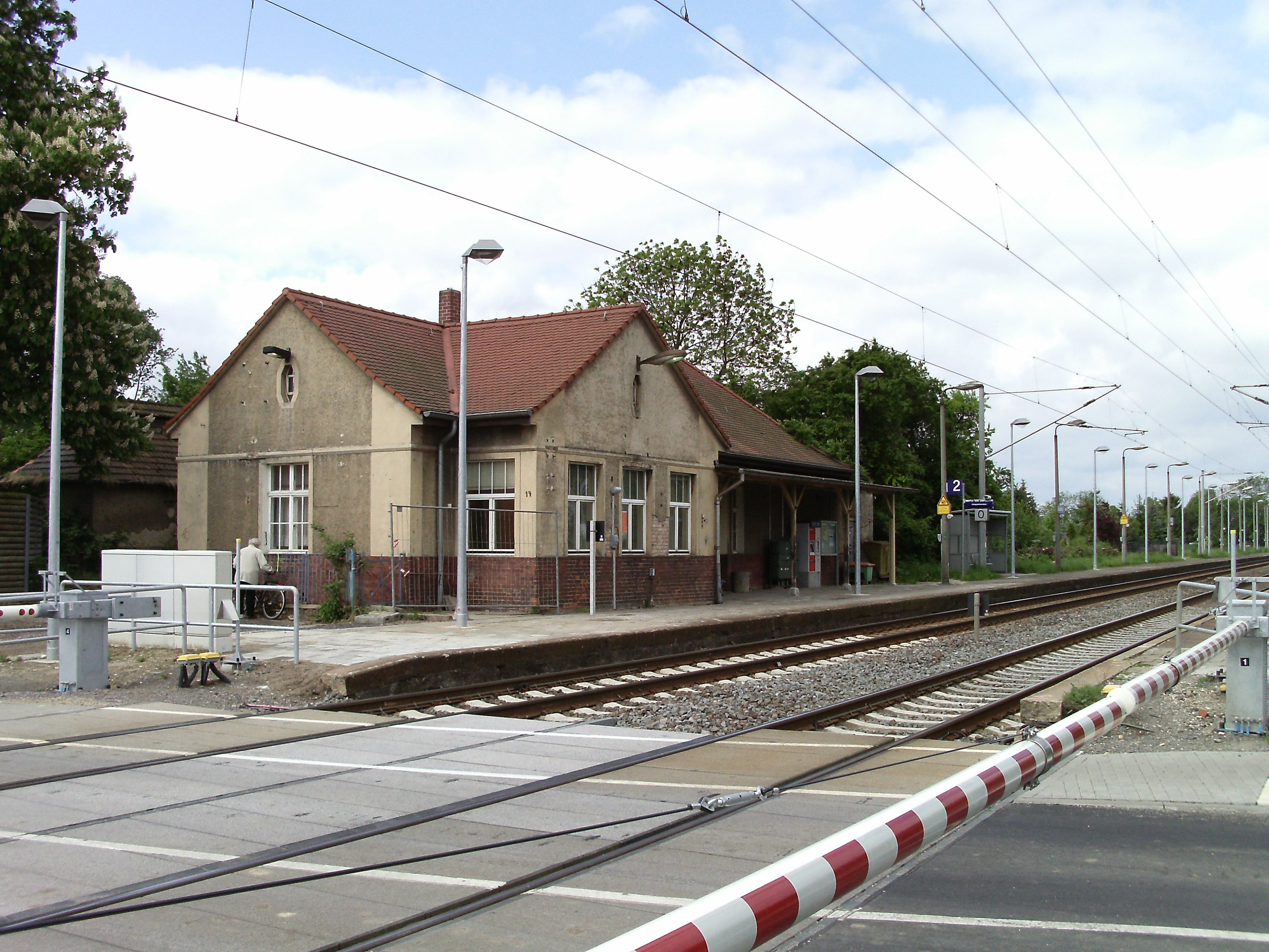 Grosslehna train station (Markranstädt, Leipzig district, Saxony)